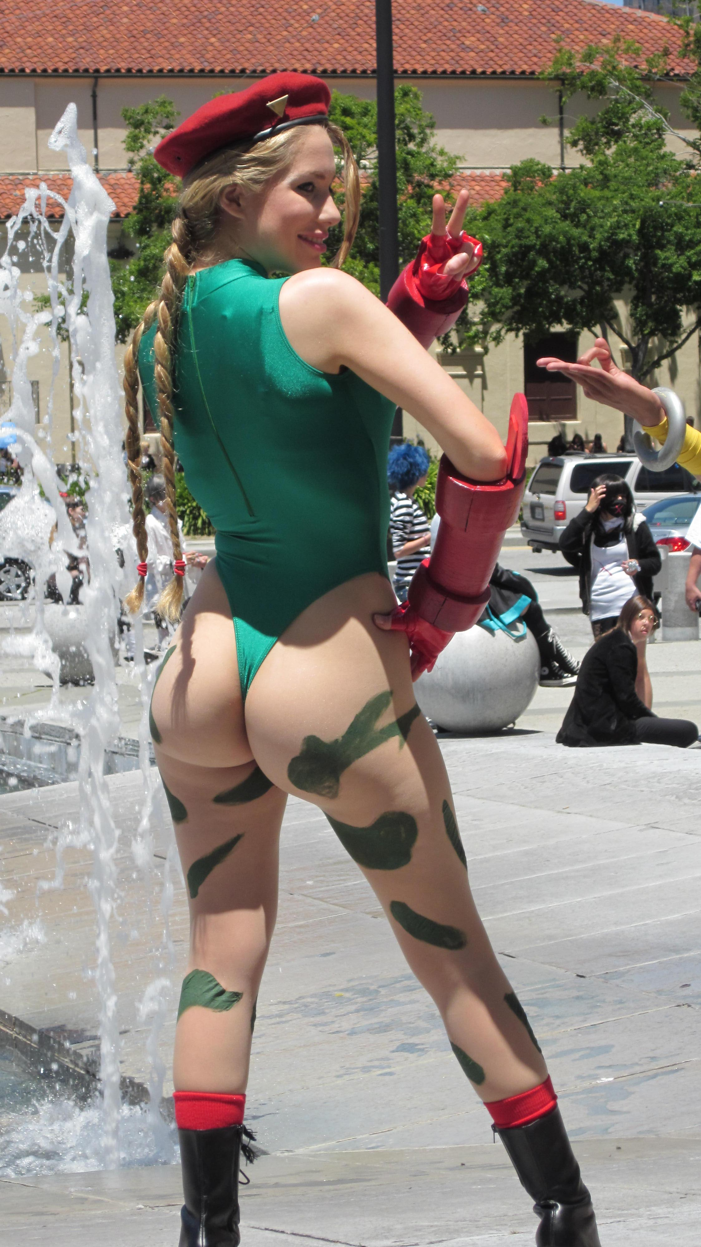 A cosplayer portraying Cammy from Street Fighter at FanimeCon 2010 in San Jose, California.